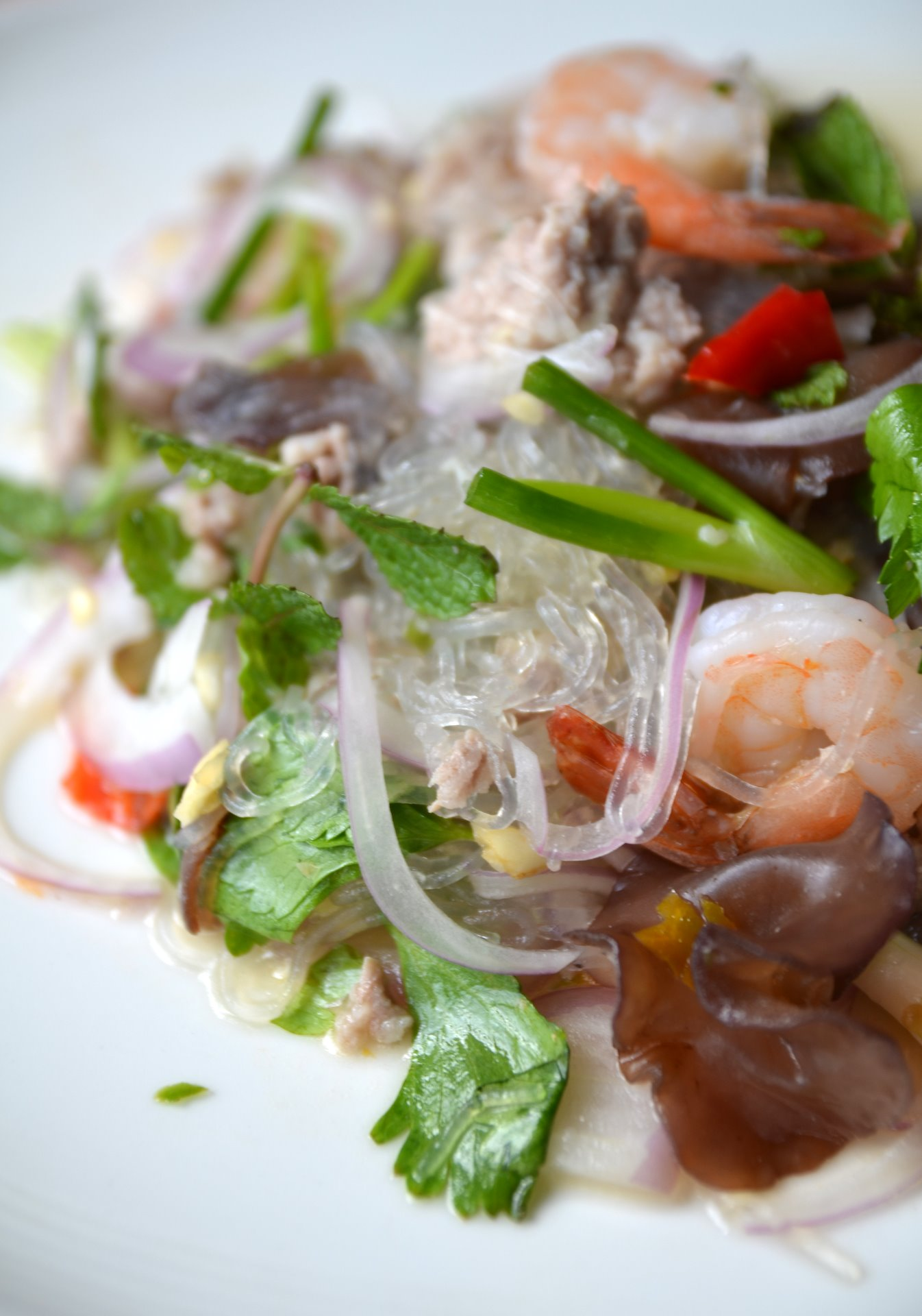 Yam wun sen (Thai script: ยำวุ้นเส้น) is a spicy Thai yam-style salad made with glass noodles (a.k.a. cellophane noodles), minced chicken or pork and seafood; most often mixed seafood, prawn or squid. The version in this image is with minced pork, prawns and "cloud ear fungus". The basic dressing contains shallots or onions, chillies, Chinese celery, fish sauce, lime juice and sugar. This version additionally features Thai mint and spring onions.